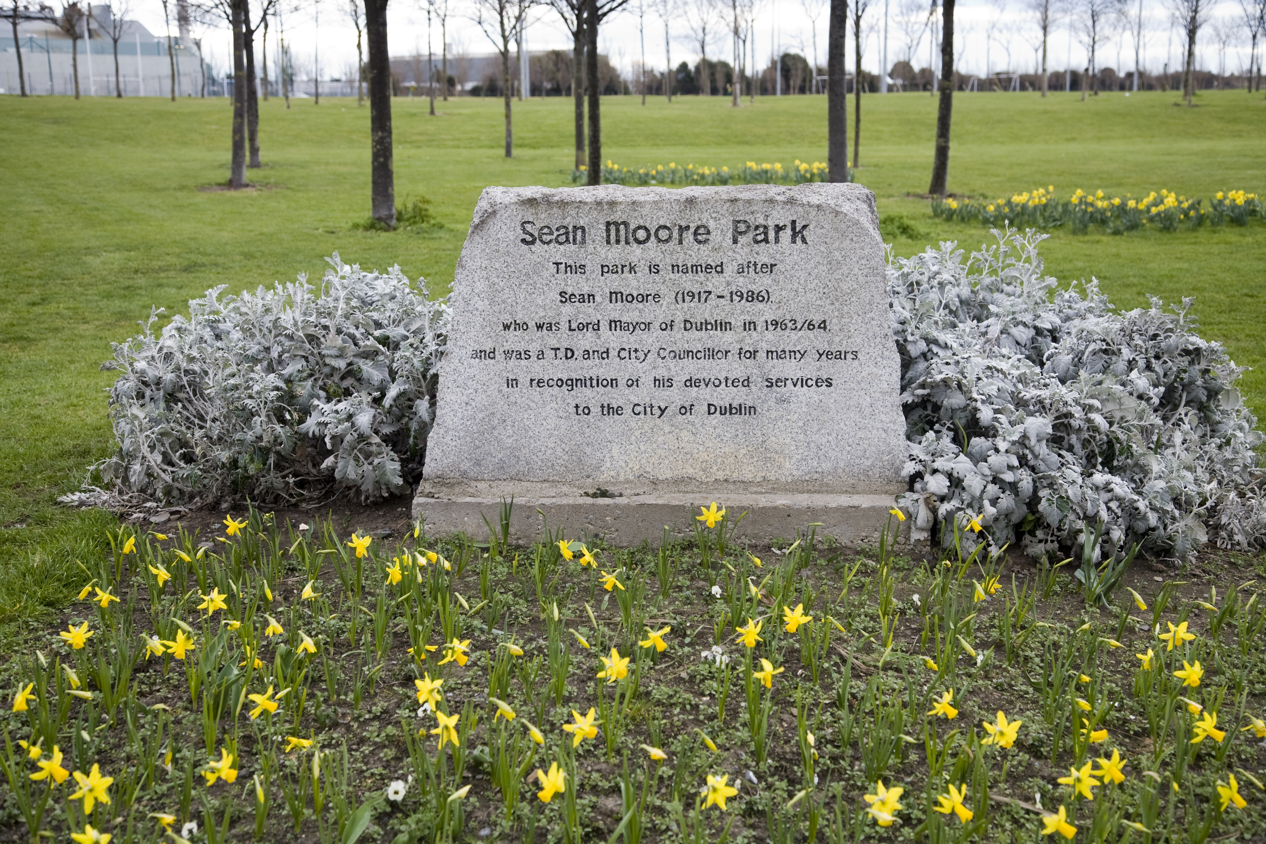 "Daffodils" (1804) I WANDER'D lonely as a cloud That floats on high o'er vales and hills, When all at once I saw a crowd, A host, of golden daffodils; Beside the lake, beneath the trees, Fluttering and dancing in the breeze. Continuous as the stars that shine And twinkle on the Milky Way, They stretch'd in never-ending line Along the margin of a bay: Ten thousand saw I at a glance, Tossing their heads in sprightly dance. The waves beside them danced; but they Out-did the sparkling waves in glee: A poet could not but be gay, In such a jocund company: I gazed -- and gazed -- but little thought What wealth the show to me had brought: For oft, when on my couch I lie In vacant or in pensive mood, They flash upon that inward eye Which is the bliss of solitude; And then my heart with pleasure fills, And dances with the daffodils. By William Wordsworth (1770-1850).